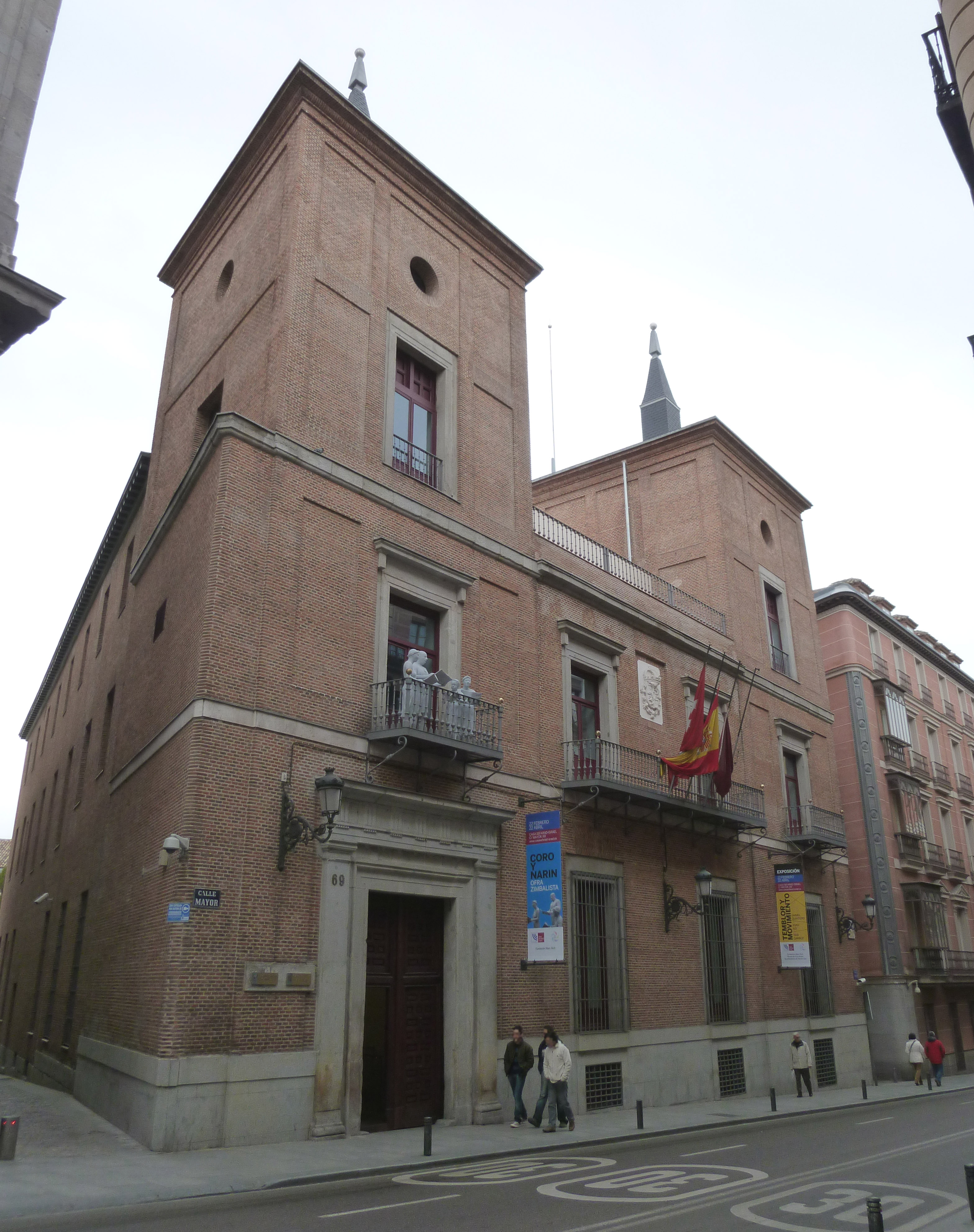 Façade of Palacio de Cañete at 69 Calle Mayor (street) in Centro district in Madrid (Spain). Built in the early 17th century. Alterations made in 1817 by Fermín Pilar Díaz. Since 2010 it is the home of Casa Sefarad-Israel ("Sepharad-Israel House") in Madrid.